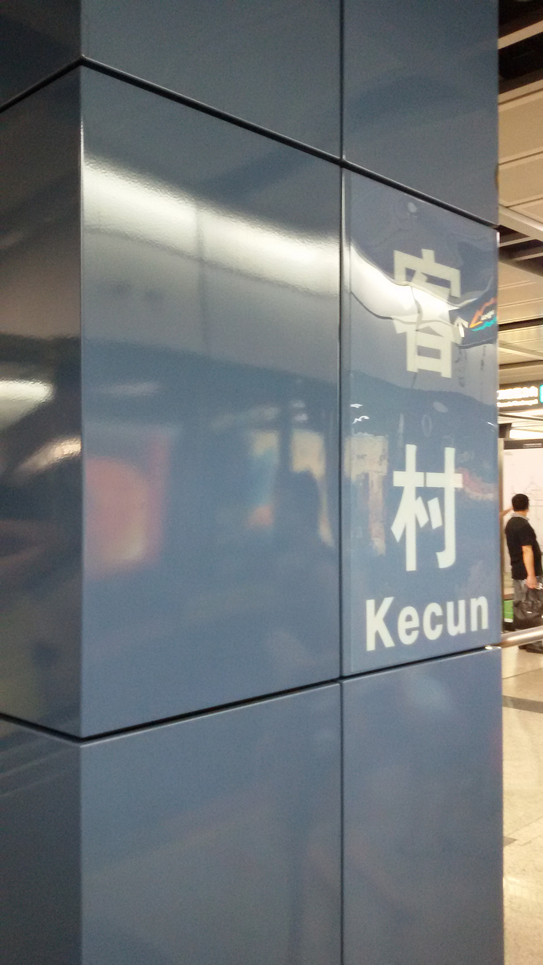 WORD on PILLAR for Kecun Station at Line 8 in Guangzhou Metro.